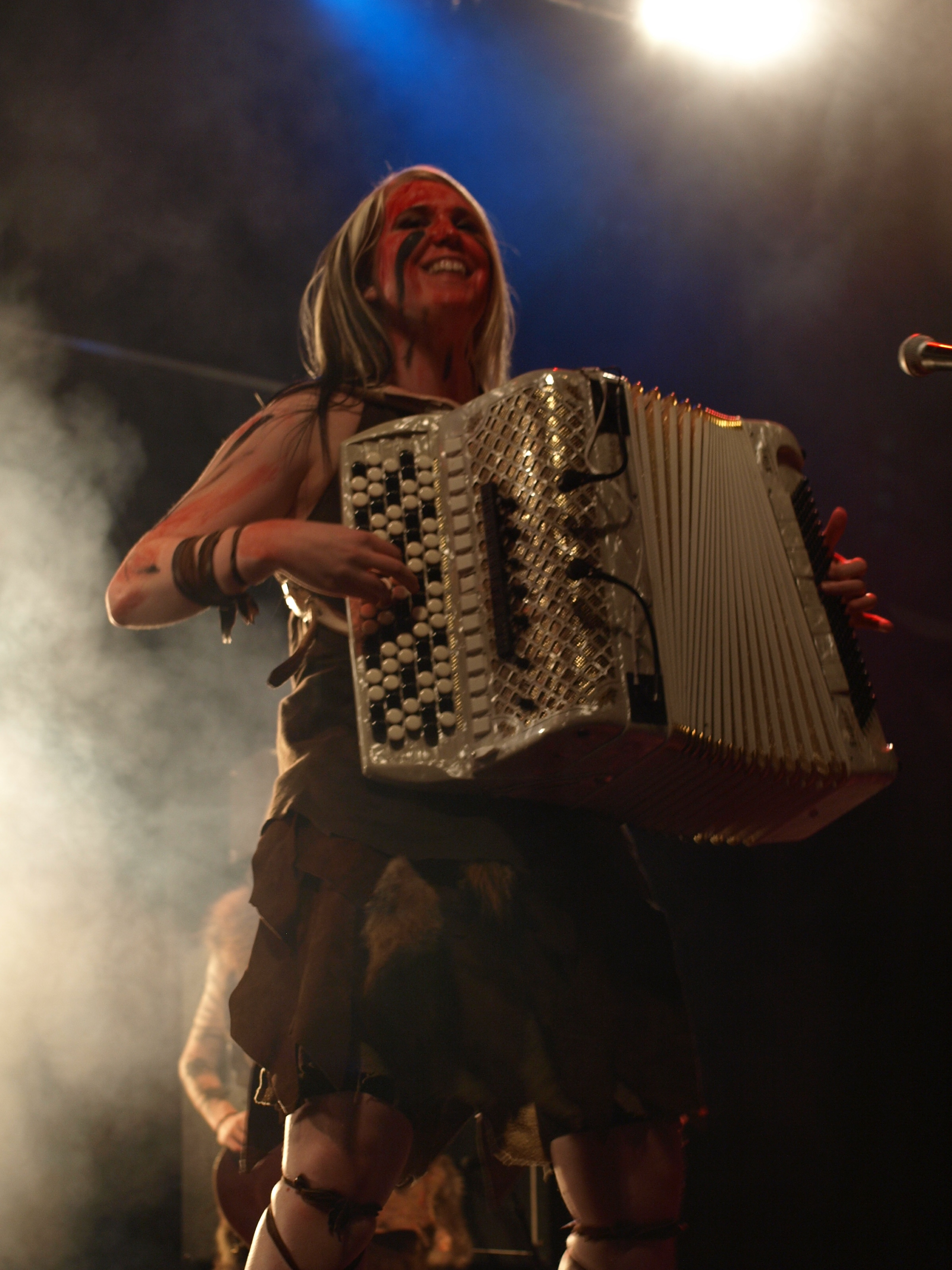 Finnish metal band Turisas live at Jalometalli 2008 in Oulu.